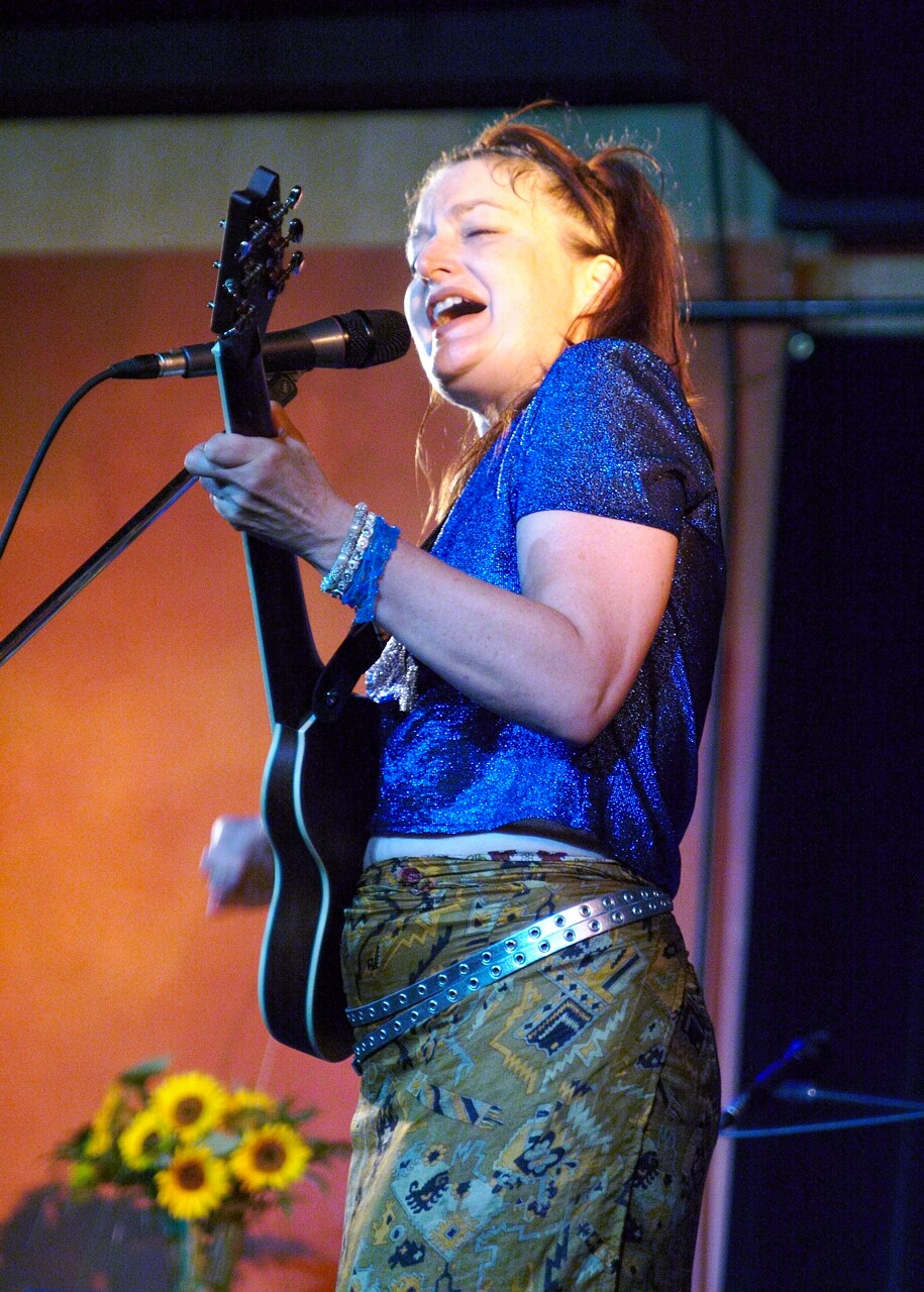 Issa (also known as Jane Siberry) lights up Hugh's Room, Toronto.